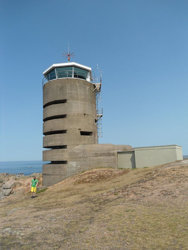 A photo of a range finder at La Corbière, Jersey